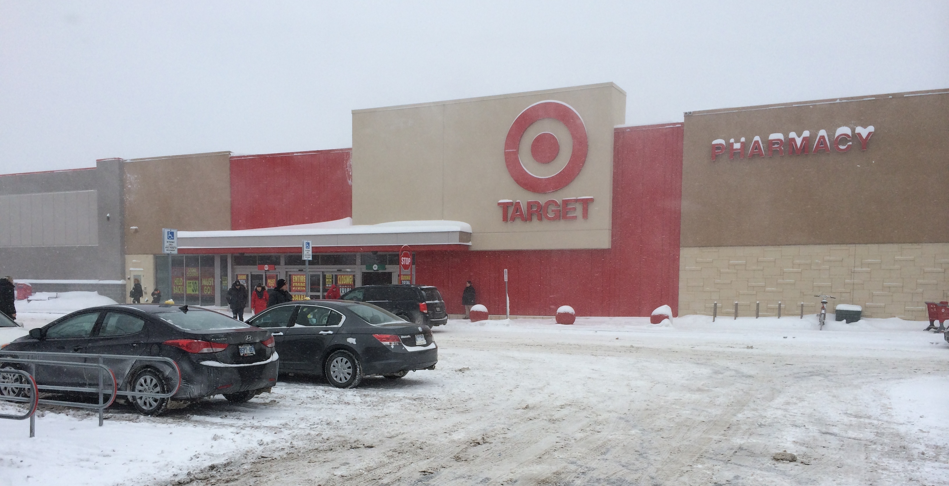 Target Merivale Rd Nepean (Ottawa) ON 2